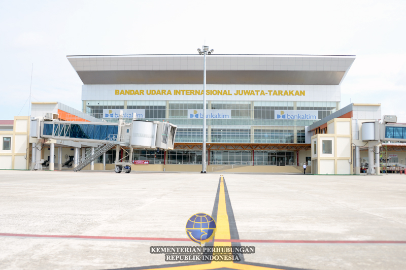 Juwata Airport, Tarakan, North Kalimantan, Borneo, Indonesia